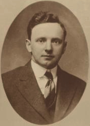 Virginia state senator Harry F. Byrd